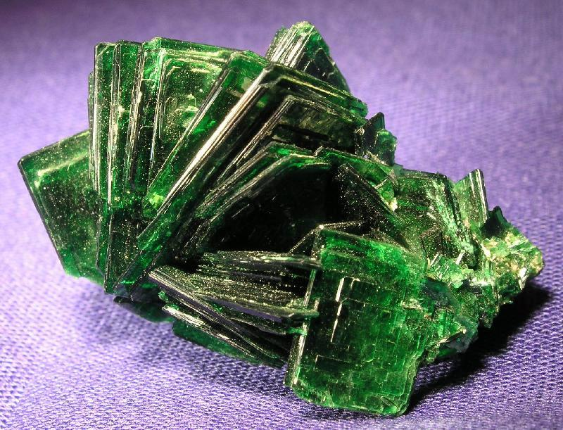 Metatorbernite Locality: Musonoi Mine, Kolwezi, Western area, Katanga Copper Crescent, Katanga (Shaba), Democratic Republic of Congo (Zaïre) (Locality at ) An absolutely exceptional specimen of these classic Metatorbernites in every way: superb GLASSY luster, very sharp bladed crystals, and an outstanding deep green color. You can see why they referred to these as "green wulfenites" when they came out! There are several levels of quality in the material dependent on the size of the crystals and more importantly on the lustre. This is TOP PERCENTILE and certainly dates to the older finds prior to the 1970s when such came out. With its aesthetics, it is a knockout thumb. BETTER IN PERSON - truly, the piece glows with lustre and color! 3.1 x 2.2 x 2 cm